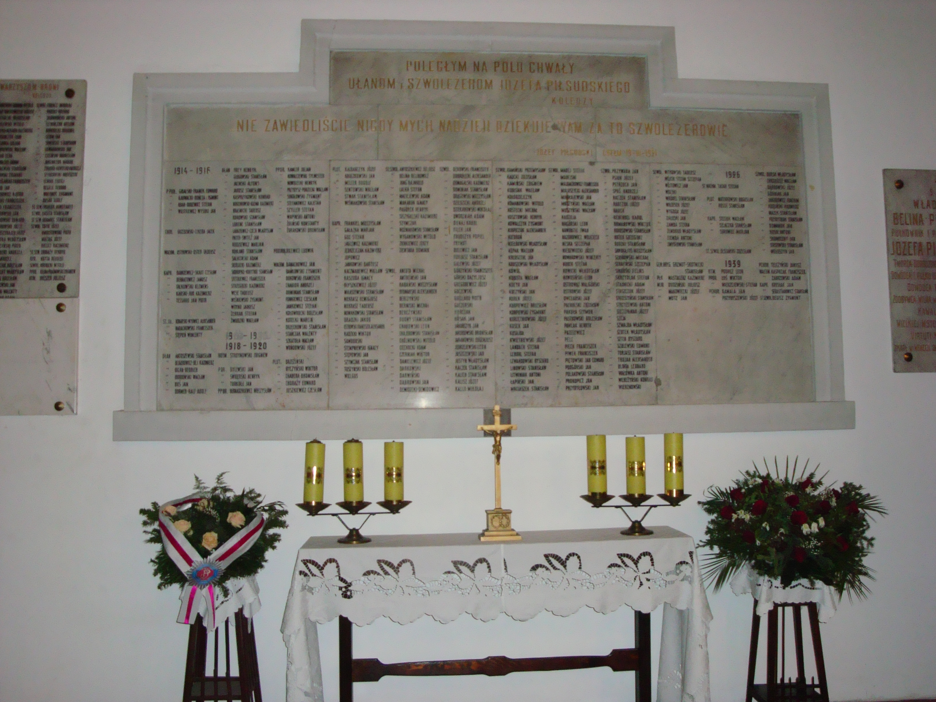 National Church Cathedral Holy Spirit of Warsaw - Commemorative plaque of the First Regiment of the name of Jozef Pilsudski (Polish Catholic Church) (December 2009)